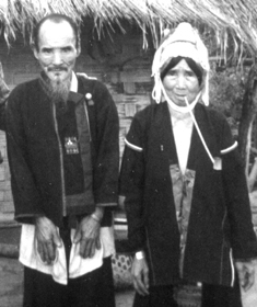 Elderly Akha couple robbed by Thai army